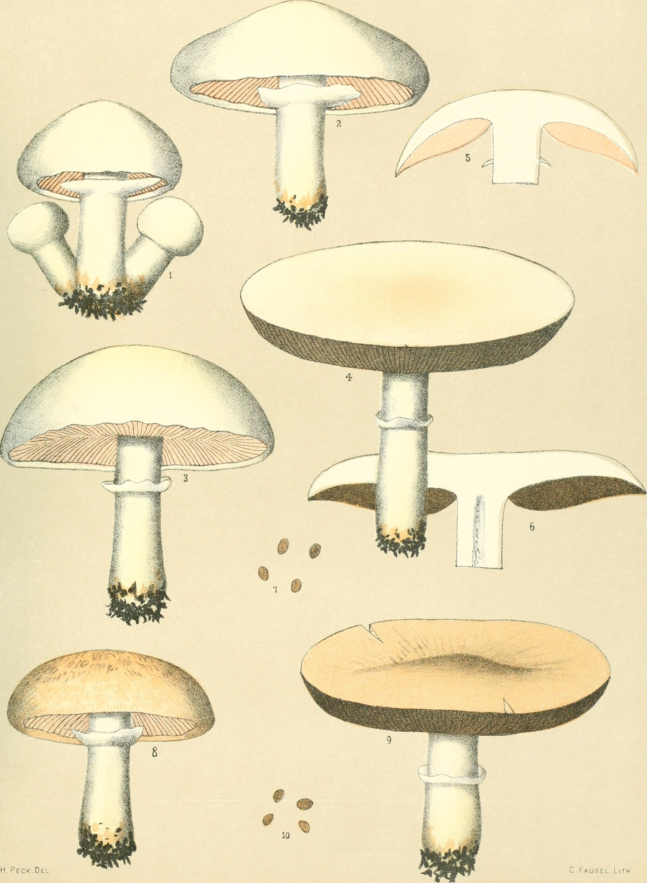 Title: Annual report of the State Botanist of the State of New York Identifier: annualreportofst1894peck Year: 1889-1897. (1880s) Authors: Peck, Charles H. (Charles Horton), 1833-1917; New York (State). State Botanist Subjects: Plants; Fungi Publisher: Albany : Troy Press Text Appearing Before Image: EDIBLE FUNGI. Text Appearing After Image: ACARICUS CAMPESTER l. COMMON MUSHROOM.